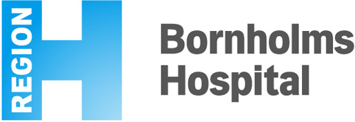 Simple logo with Volvo font